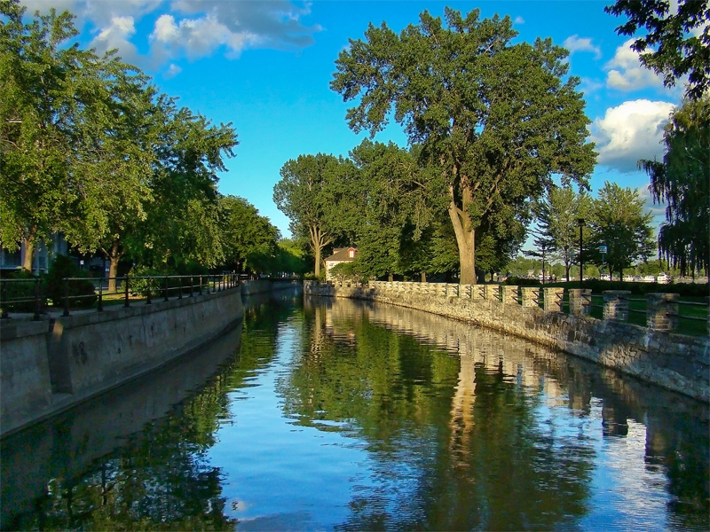 Lachine Canal, Quebec, Canada.